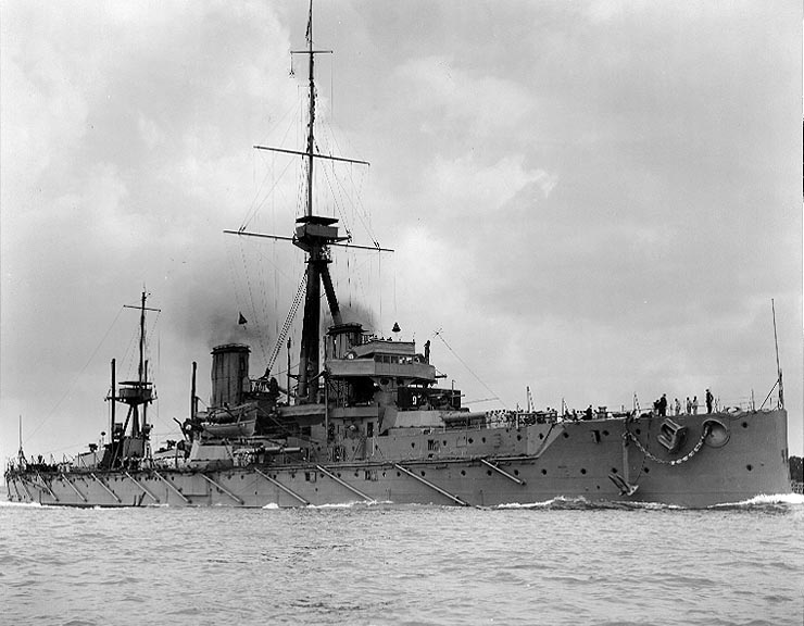 HMS Dreadnought underway, with an anchor suspended from the starboard deck edge, circa 1906-07. Note the array of booms used to deploy her anti-torpedo net system. Removed caption read: Photo # NH 63596 HMS Dreadnought (British battleship, 1906)